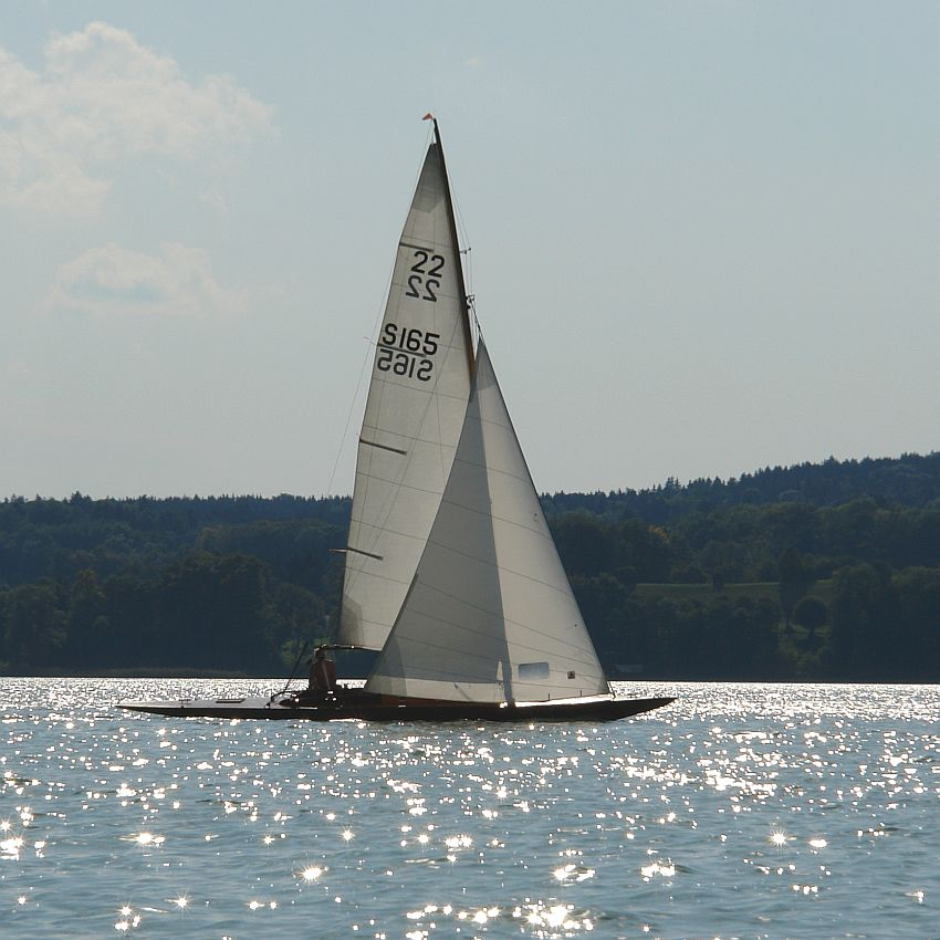 22m2 Skerry Cruiser